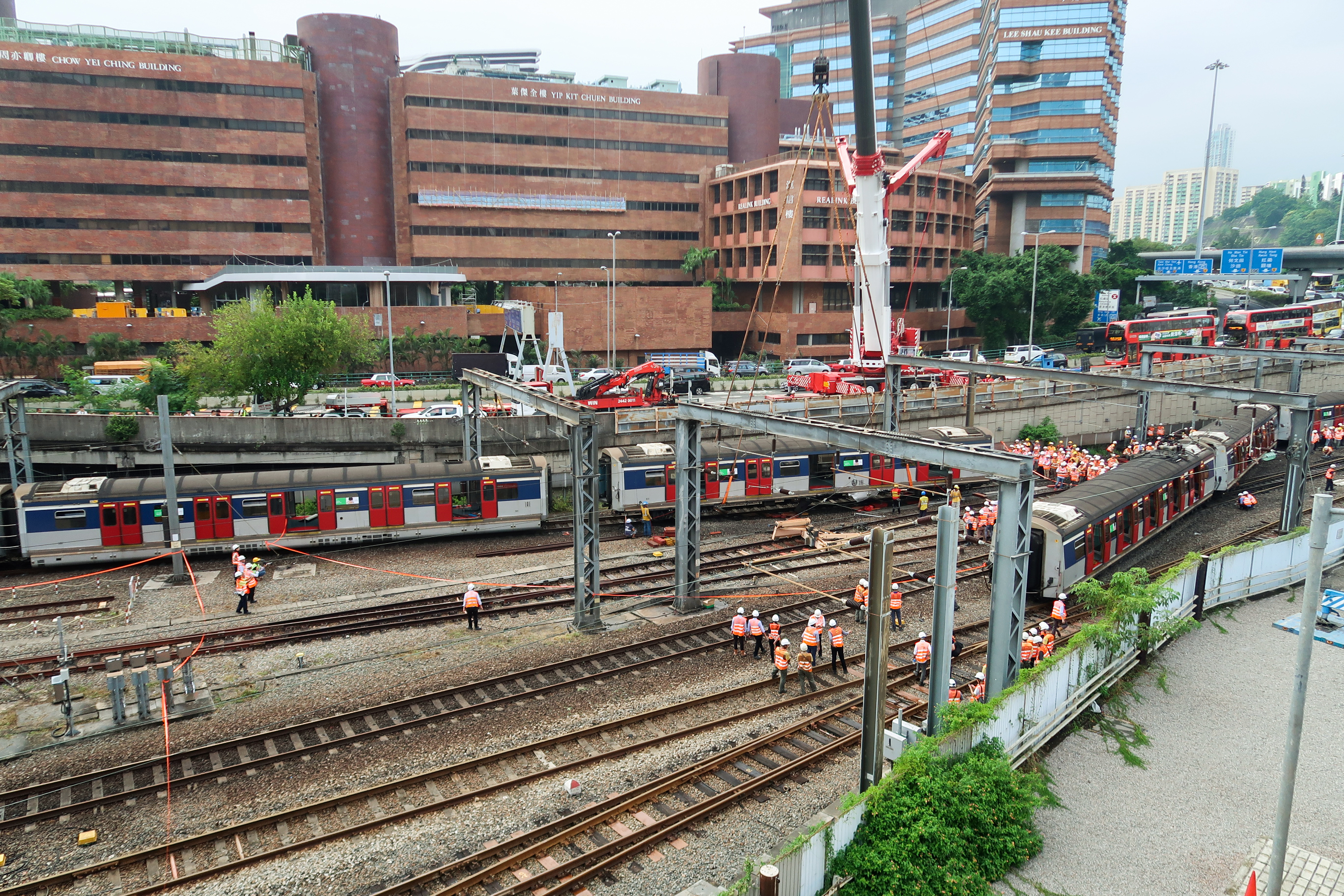 A train has derailed on the East Rail line, near Hung Hom Station on 17/9/2019